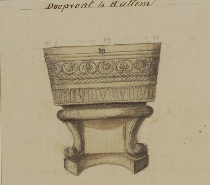 a picture of the baptismal font of the St. Andrewschurch of the Dutch city Hattem